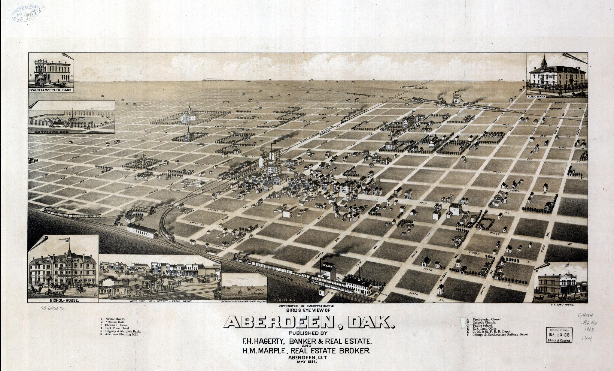 1883 bird's eye illustration of Aberdeen, South Dakota, USA.